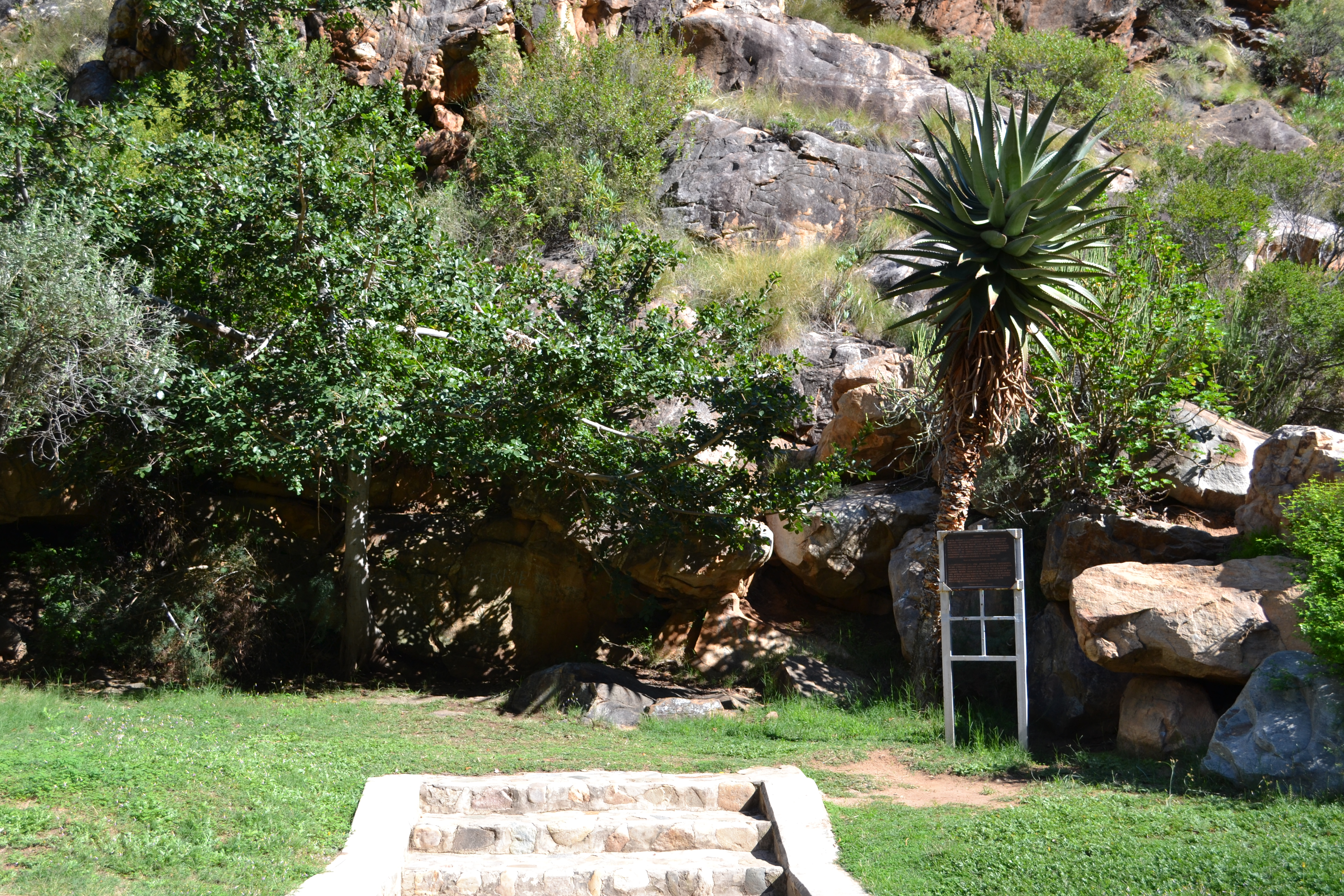 Meiringspoort, Little Karoo, Western Cape.